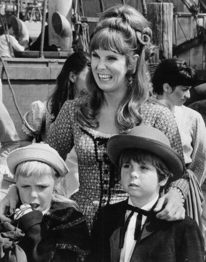 Publicity photo from the television show Here Come the Brides. Pictured are Bridget Hanley, Patti Cohoon and Eric Chase.